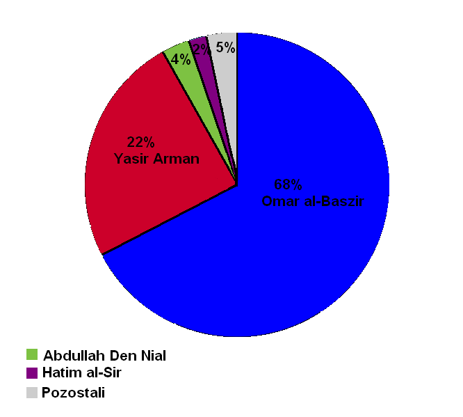 Sudan presidential election results in 2010.